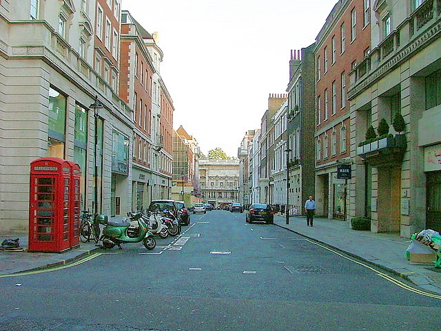 Sackville Street W1 Looking from Vigo Street towards Piccadilly.